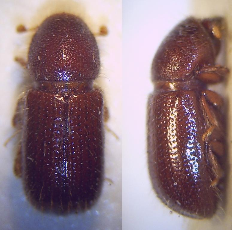 Dryocoetes_autographus_Imago.